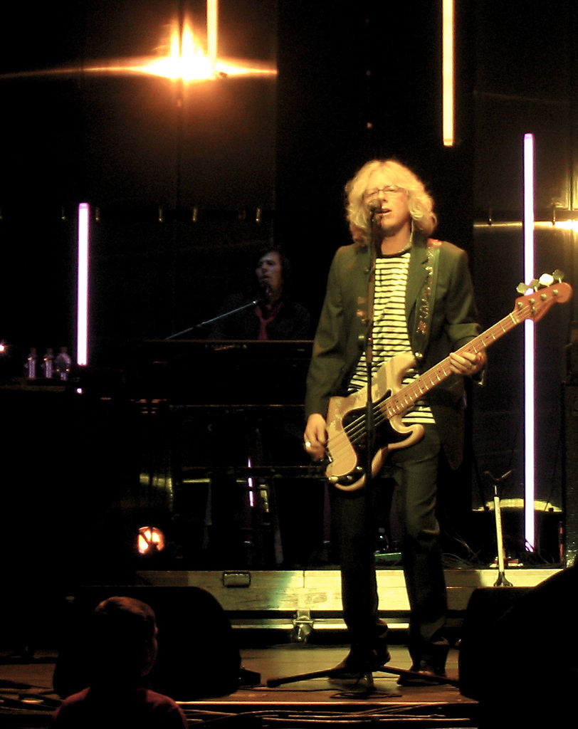 Mike Mills of the United States rock band R.E.M. on stage in Seattle, Washington.